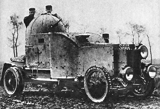 SAVA Belgian armoured car, model 1914 WW1